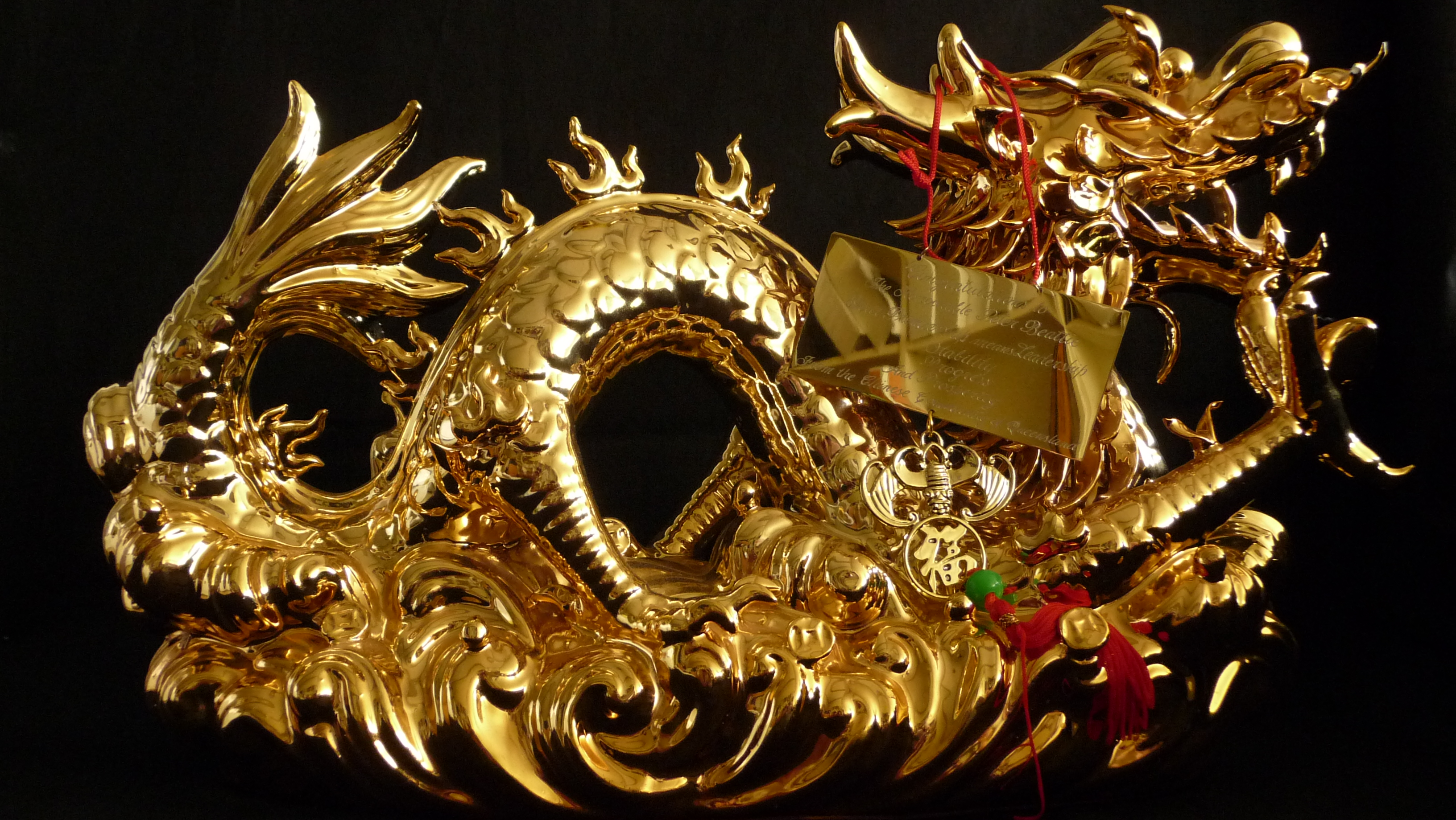 Chinese dragons are said to be made up of nine different animals: the head of a camel; scales of a fish; horns of a deer; eyes of a rabbit; ears of a bull; neck of a snake; belly of a frog; paws of a tiger; and claws of an eagle. Dragons appear in many areas of Chinese culture but today their purpose is mainly decorative. They cover shop fronts at Chinese New Year and are embroidered on silk clothing and wall hangings. Object description: This Chinese dragon is made of gold-plated ceramic with a gold commemorative plate affixed with red silk tassels. It is one of a pair that was donated to the Queensland Museum in 2007 by Peter Beattie, a former Premier of Queensland. The Chinese Community of Queensland presented the dragon to him in recognition of his clear stance against racism and for embracing the multicultural nature of Queensland society. History: Dragons are mythical creatures thought to possess magical powers that could ward off evil spirits. In ancient Chinese culture they were a symbol of power and strength. The Imperial golden dragon with five claws on each foot was a symbol for the emperor in many Chinese dynasties. Many Chinese people use the term ‘descendants of the dragon’ to refer to their cultural identity. Today dragon dances are a highlight of Chinese New Year celebrations.